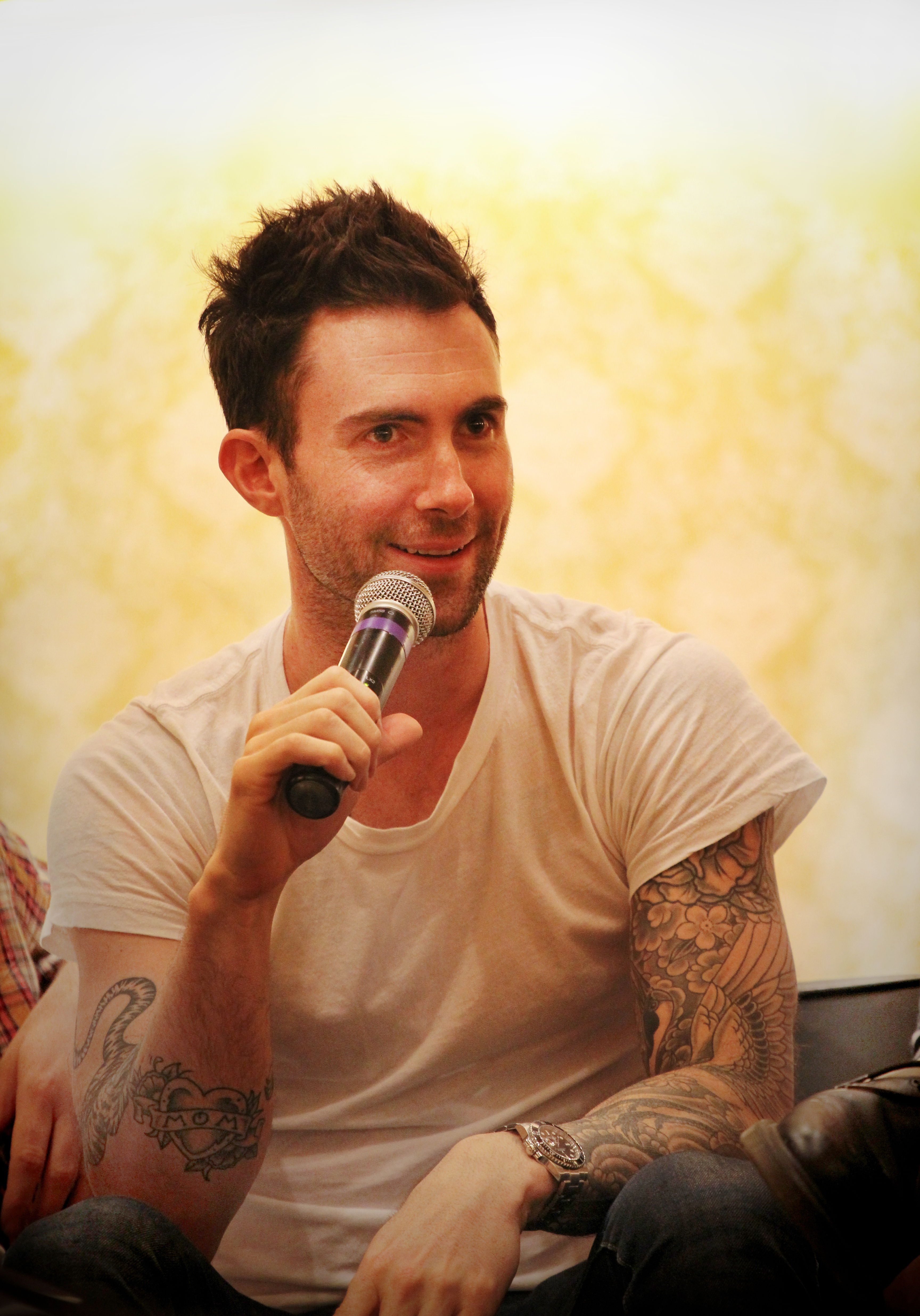 Adam Levine